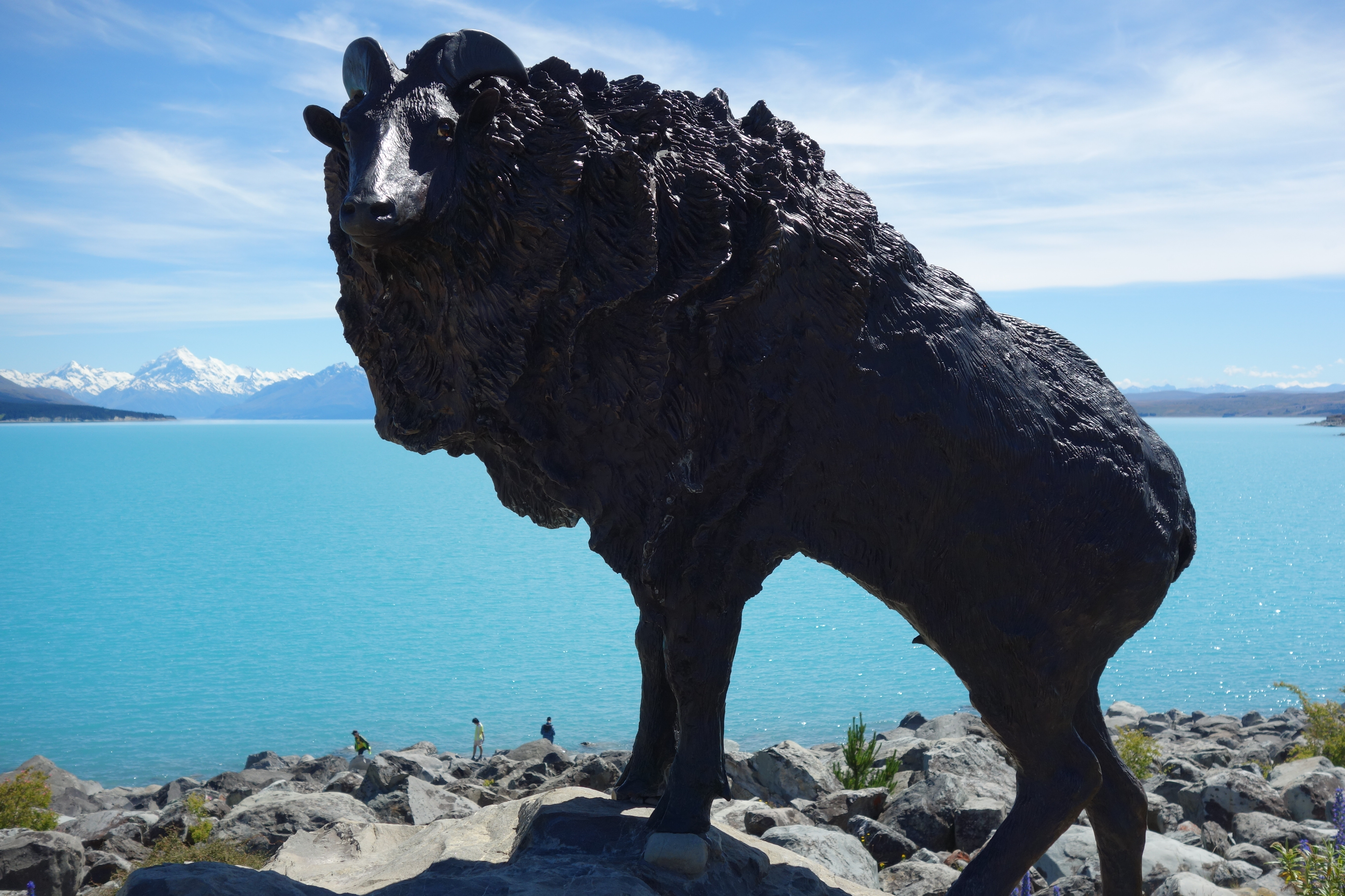 Lake Pukaki Tahr sculpture dedicated by Henrietta, Dowager Duchess of Bedford in recognition of the contribution made by the Dukes of Bedford and the Russell family, to the preservation of the Himalayan tahr internationally.